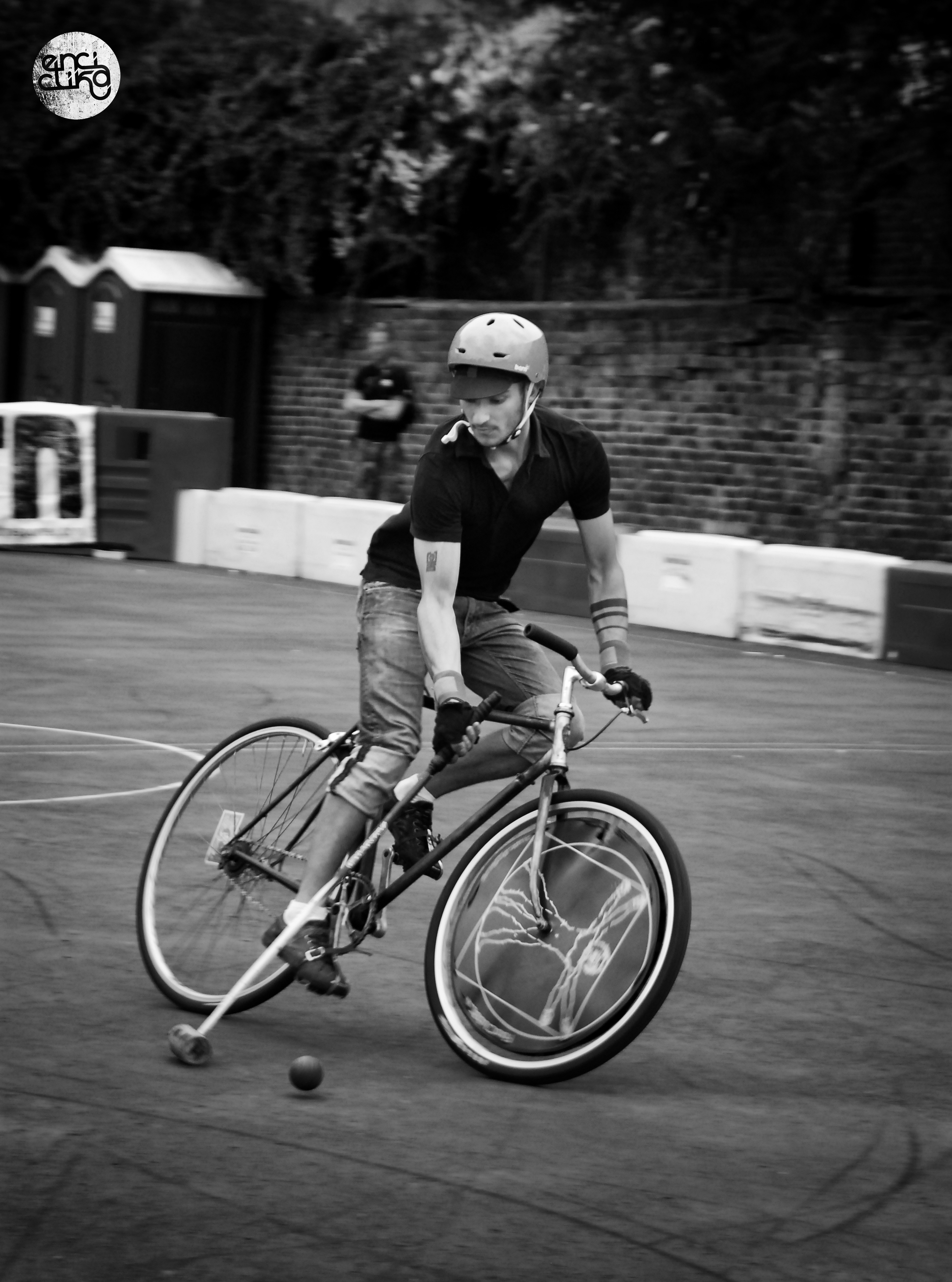 Tom Hit ball.